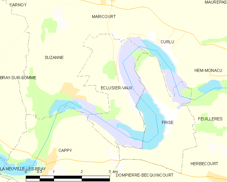 Map of French municipality Éclusier-Vaux